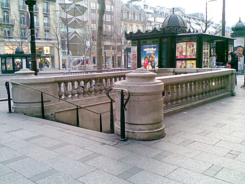 Exterior entrance of Paris Métro station in Greek-Roman classical style. Franklin Roosevelt, Champs-Élysées.